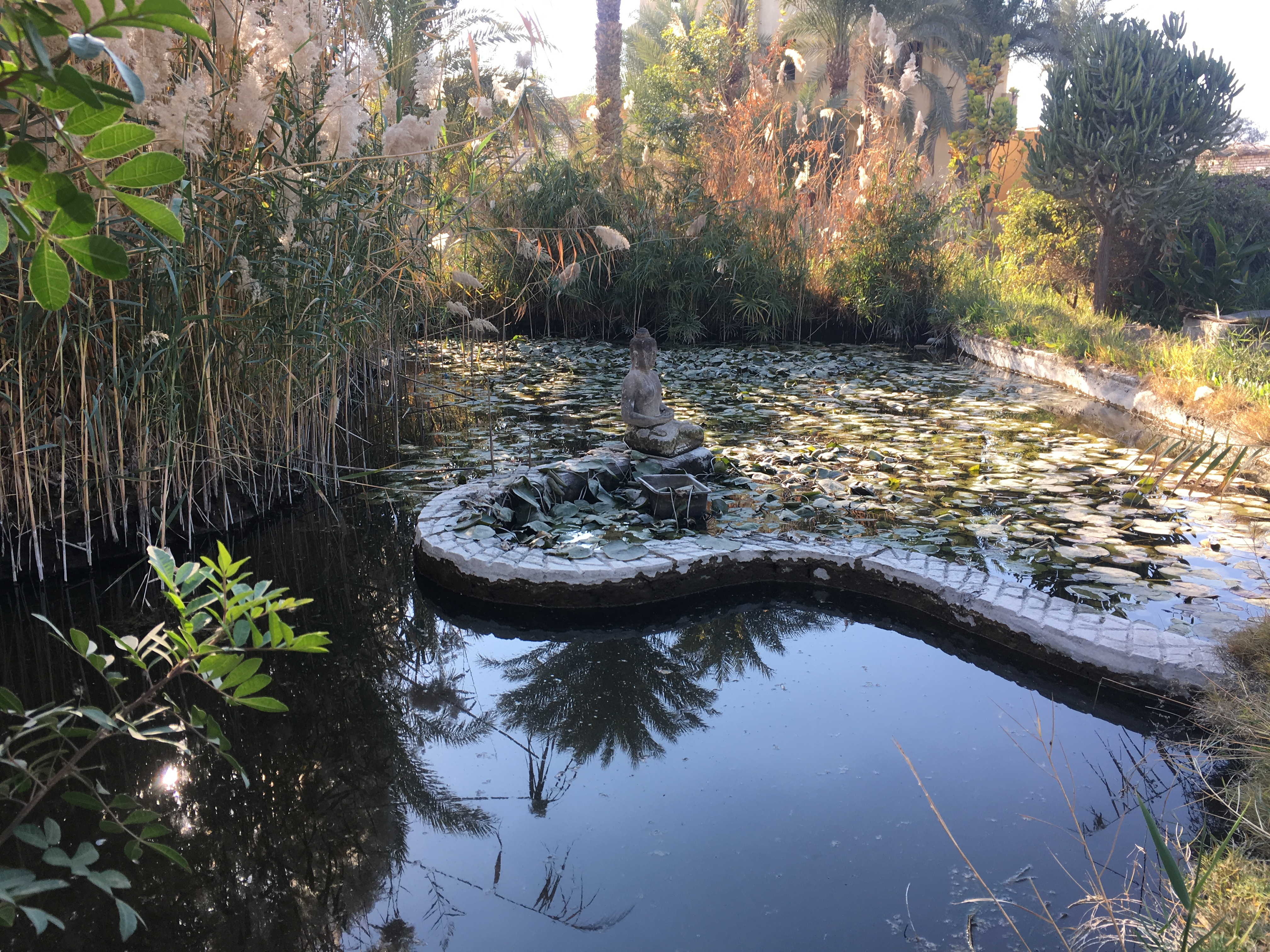 Tunis village , photo by Hatem Moushir